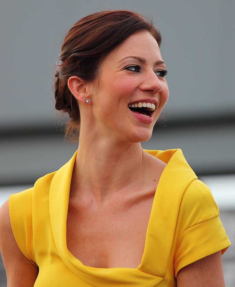 Lynn Collins at the X-Men Origins: Wolverine premiere in Tempe, Arizona.